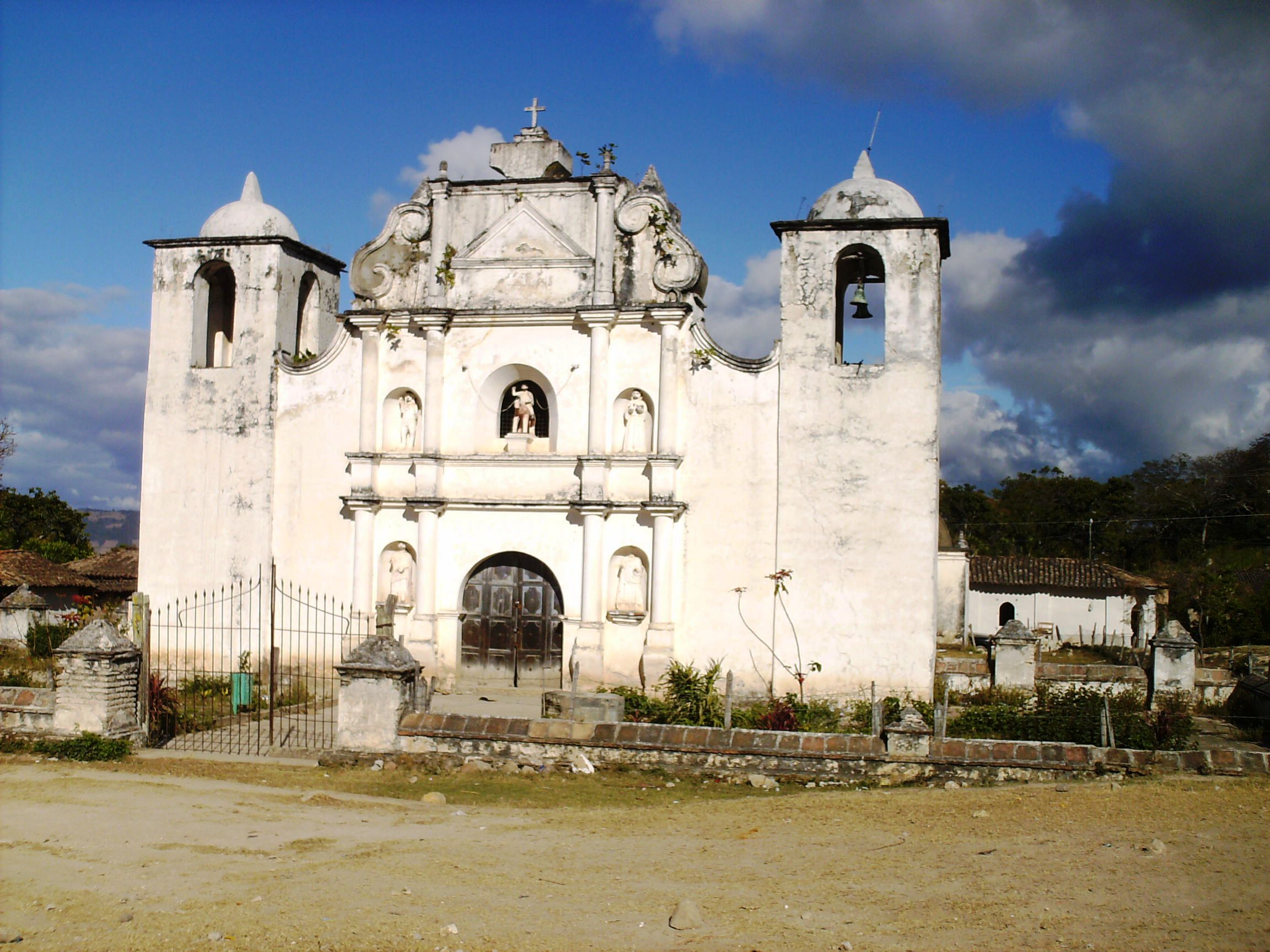 Colonial era Baroque style church in San Sebastian, a town/municipality in the Honduran department of Lempira.